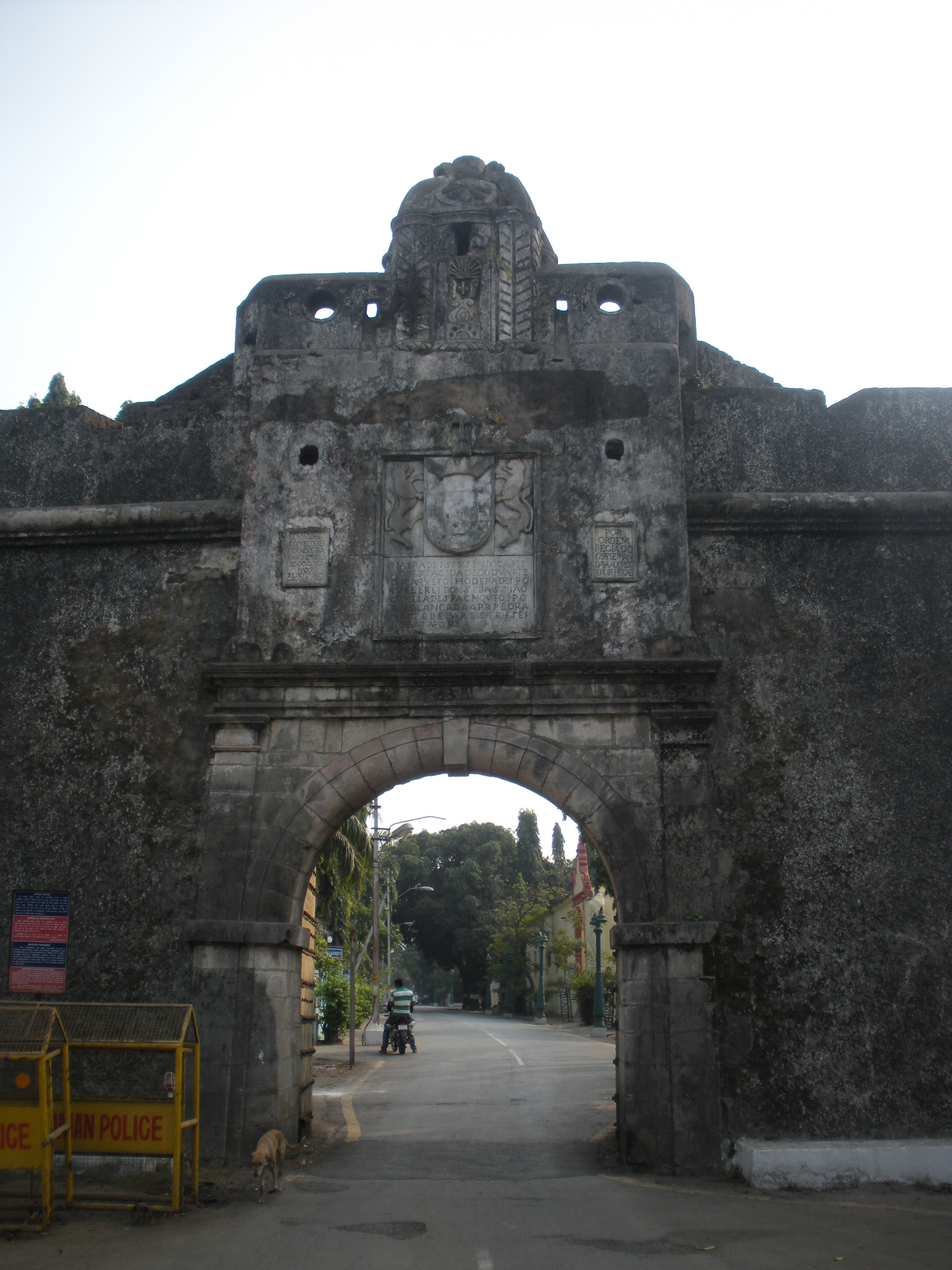 Moti Daman Fort, Daman, Daman and Diu